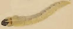 Stainton’s Natural History of the Tineina (1855–1873): Elachista biatomella